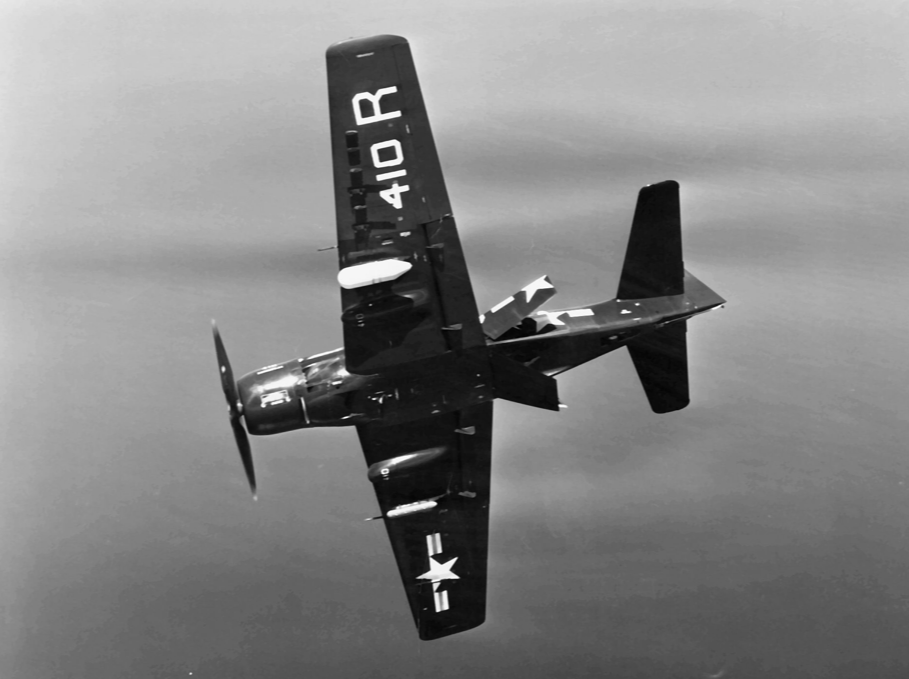 A Douglas AD-3 Skyraider fromn Attack Squadron VA-174 in the late 1940s. Note the extended dive brakes at the sides and below the fuselage. The tail code "R" indicates that VA-174 was assigned to Carrier Air Group 17 (CVAG/CVG-17).